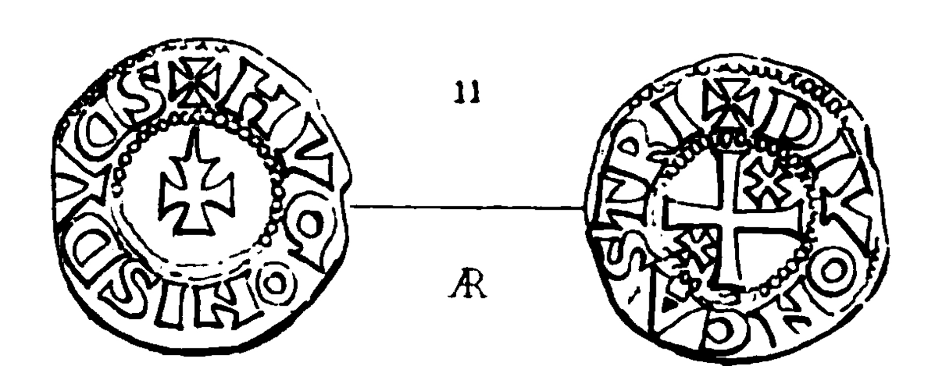 Coin of Hugh I, Duke of Burgundy